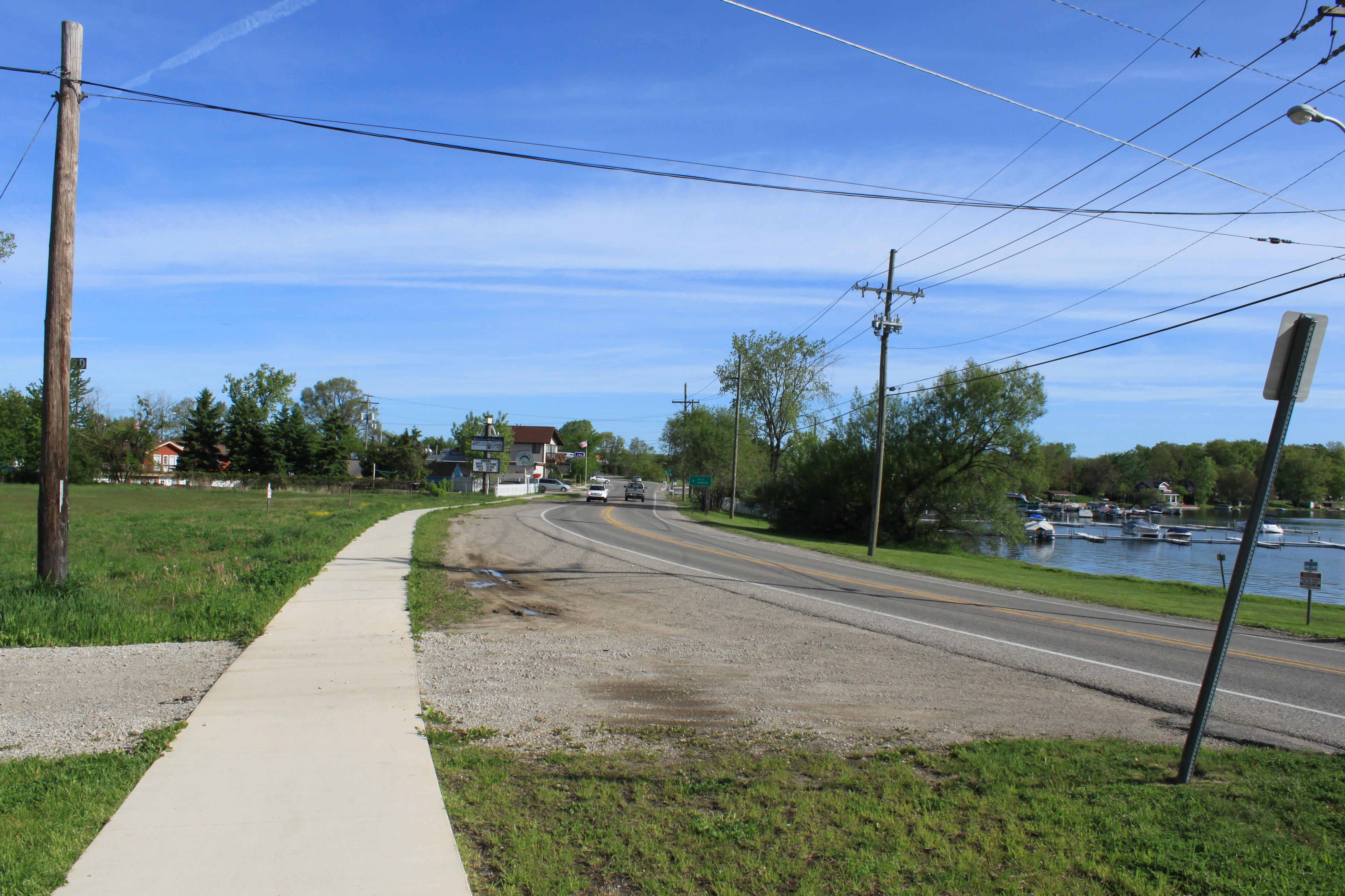 Main Street, Whitmore Lake, Michigan